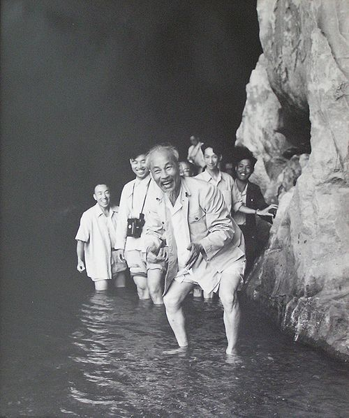 Ho Chi Minh at the Lijiang River in China in 1961